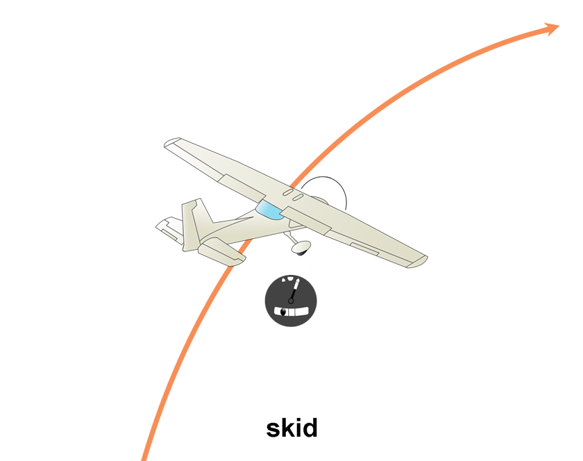 turn and slip indicator - right turn and skid. The correcting action is to press the "left" rudder pedal adequately, ie. "step on the ball".